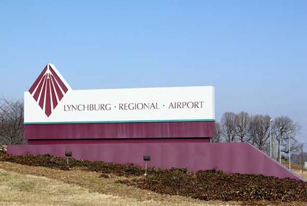 Lynchburg Regional Airport Sign off U.S. 29